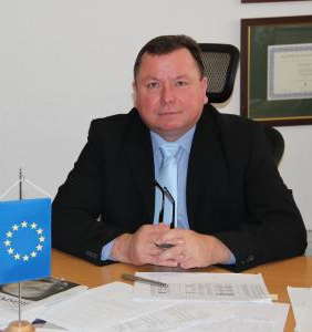 Jozef Gamrát, current mayor of Sečovce (till 2015)